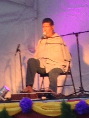 Tony Meléndez performing at The Shrine of St. Francis Xavier and Our Lady of Guadalupe in Grand Rapids, Michigan